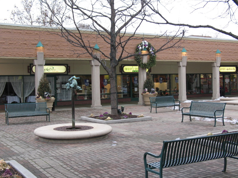 Monika Bonckute is the author of this picture.